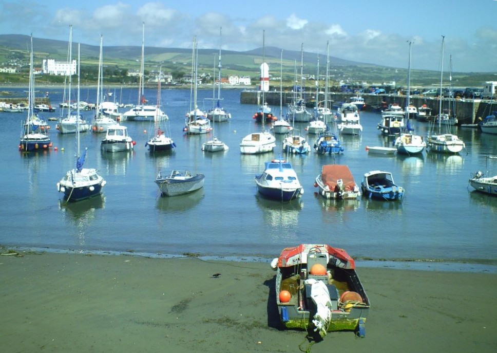 A beach in Port St. Mary.